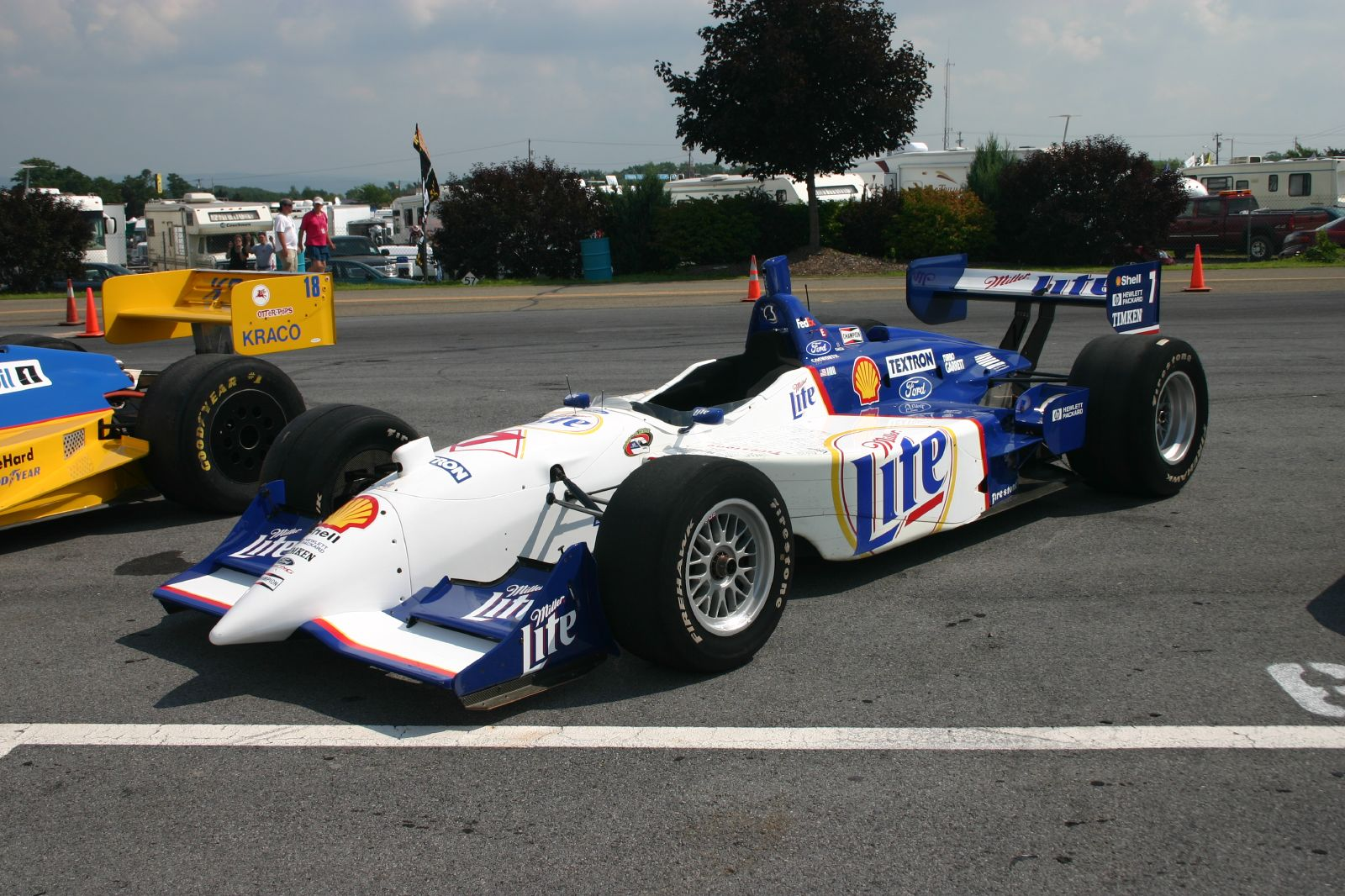 Bobby Rahal's "Last Ride" - His last year as a driver was spent in this #7 Reynard Ford.